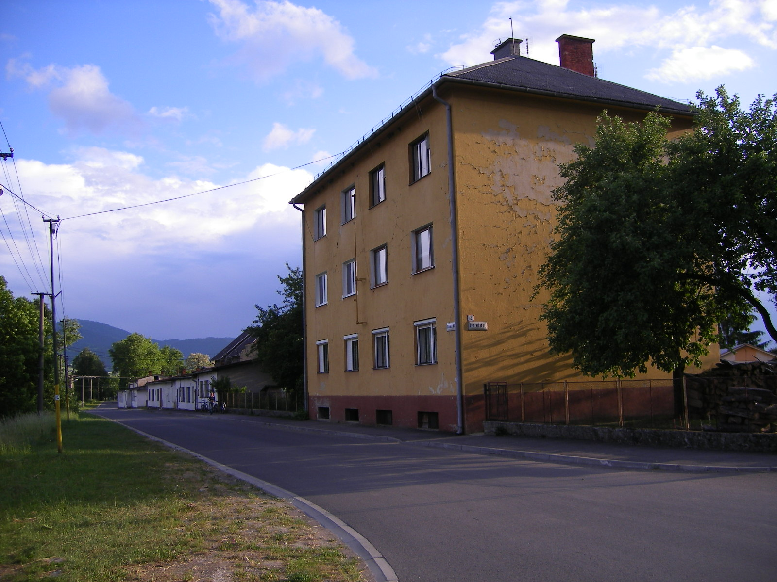 Krpeľany - street view